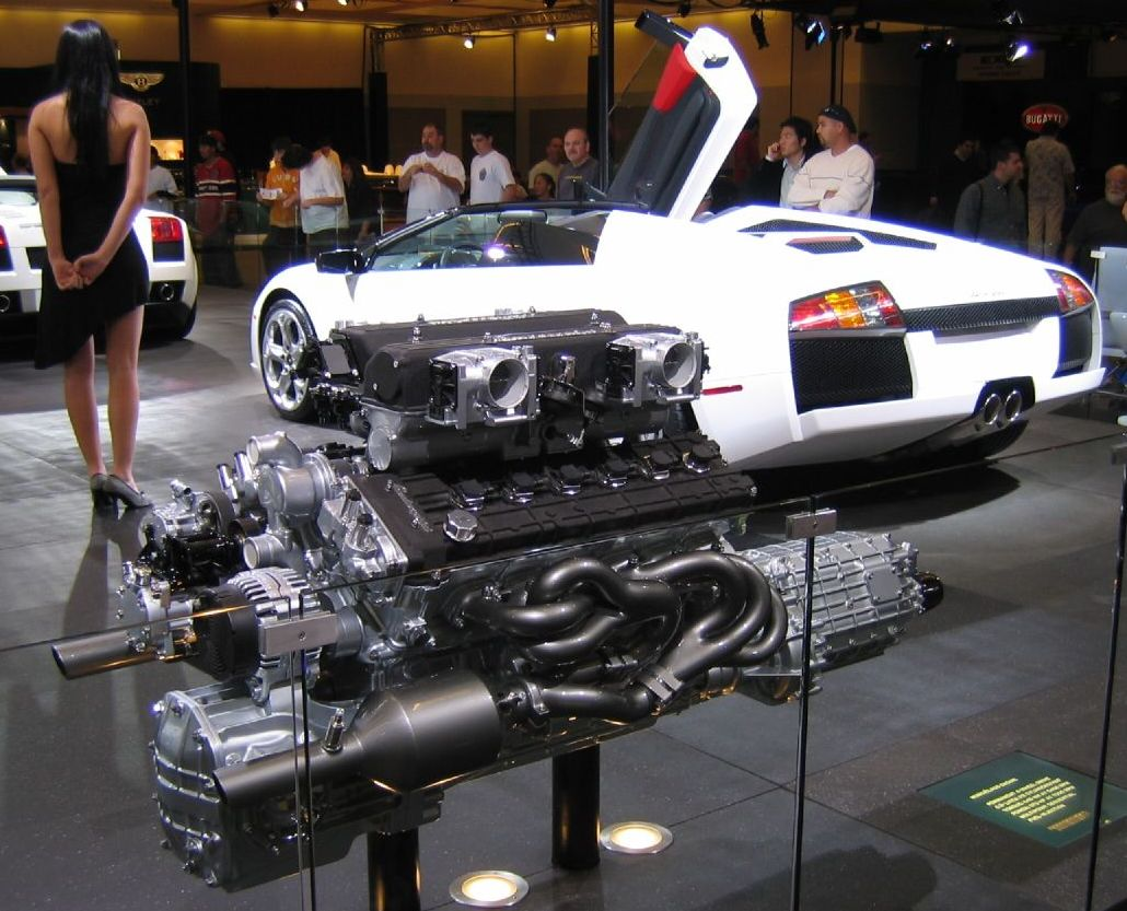 Lamborghini Murciélago Roadster with its V12 engine and transmission (and glamour model!) at the 2006 LA Auto Show